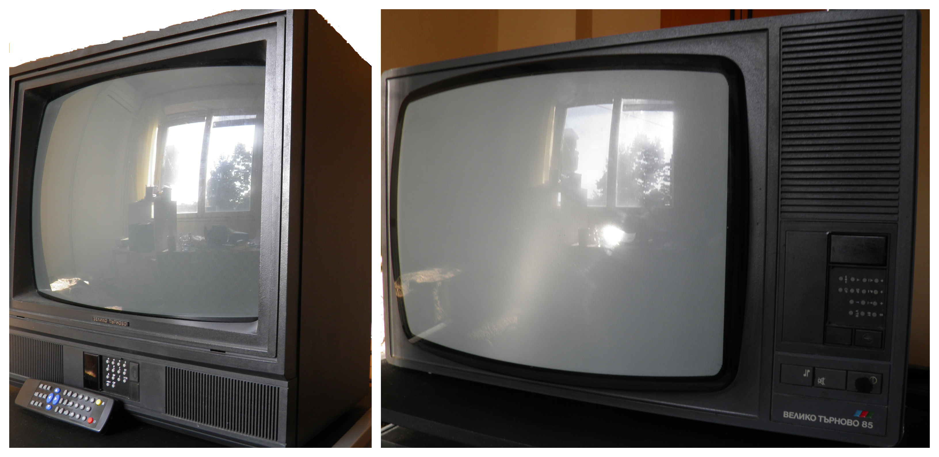 Television Veliko TarnovoTC5119(rigth) and Television Veliko Tarnovo(left)